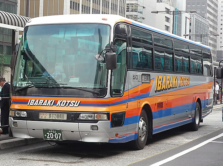 Ibaraki Kotsu Mitsubishi Fuso Aero Bus(KC-MS829P)Highwaybus Tokyo - Katsuta(Hitachinaka,Ibaraki),Tokai